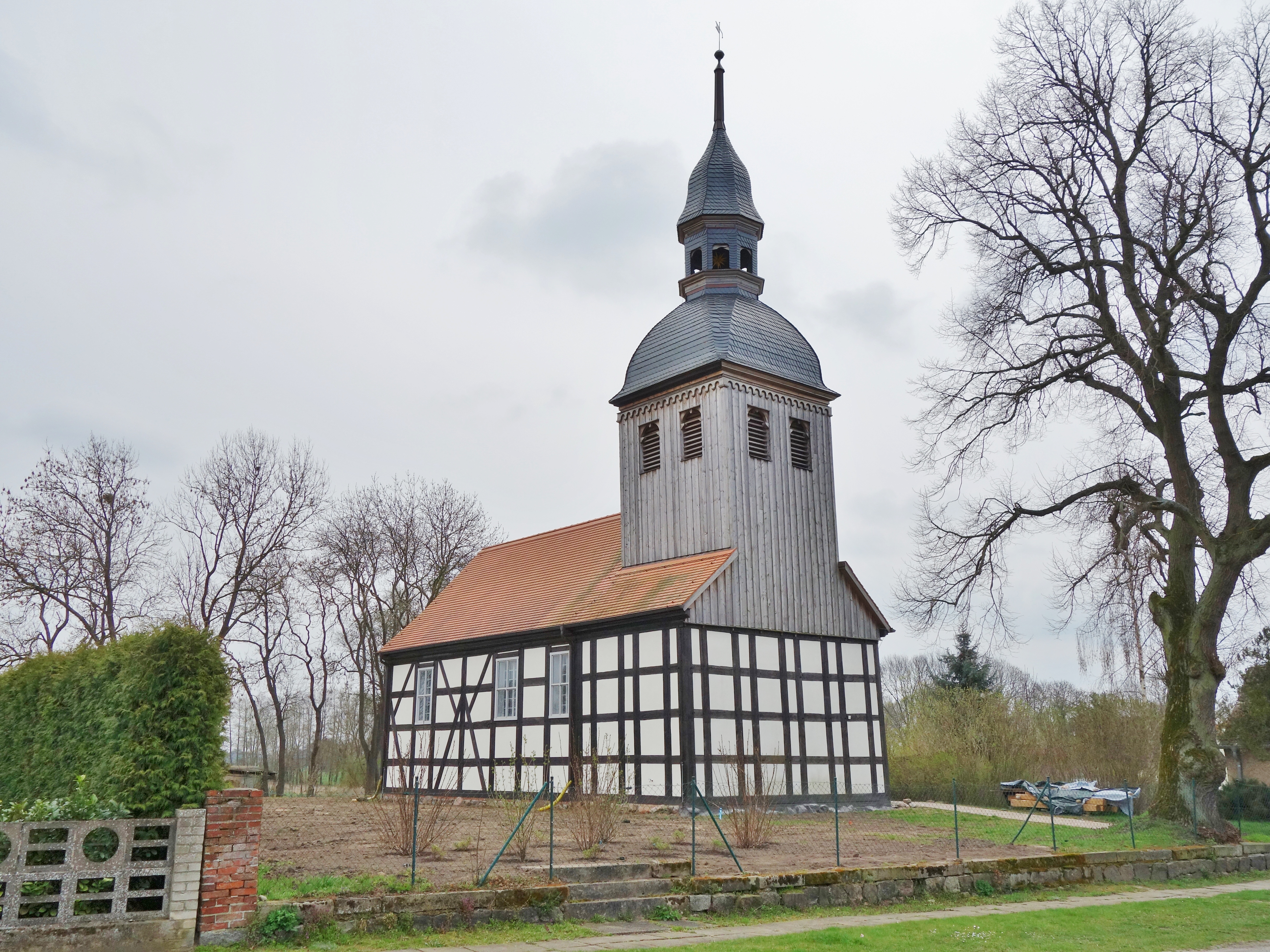 North-western view of church in Kantow, Wusterhausen municipality, Ostprignitz-Ruppin district, Brandenburg state, Germany